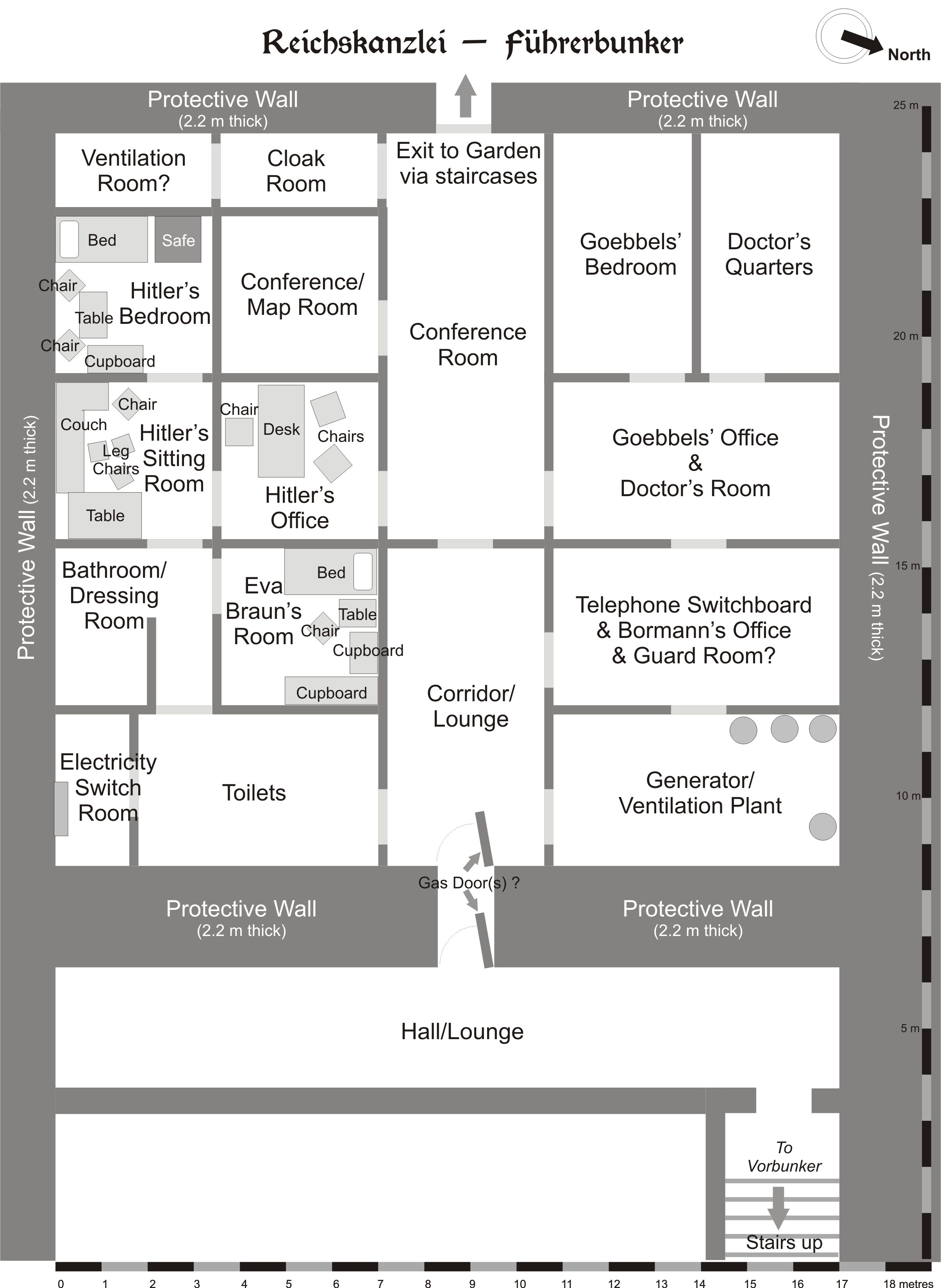 Map of the Fuehrerbunker in Berlin, 1945. For more detailed information, please see below.